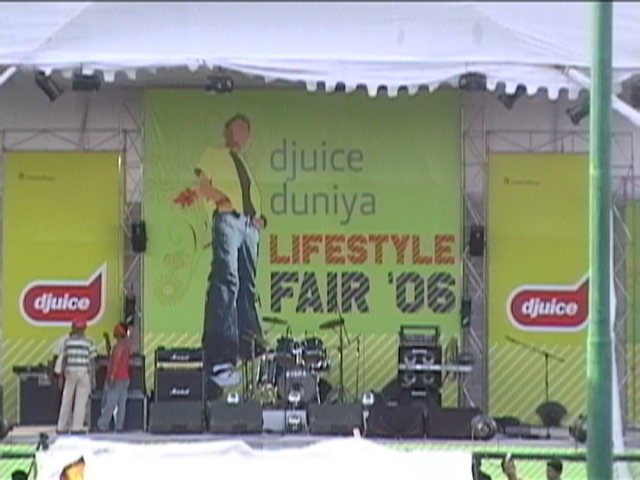 Concert of Bangladesh, Sponsored by Djuice.